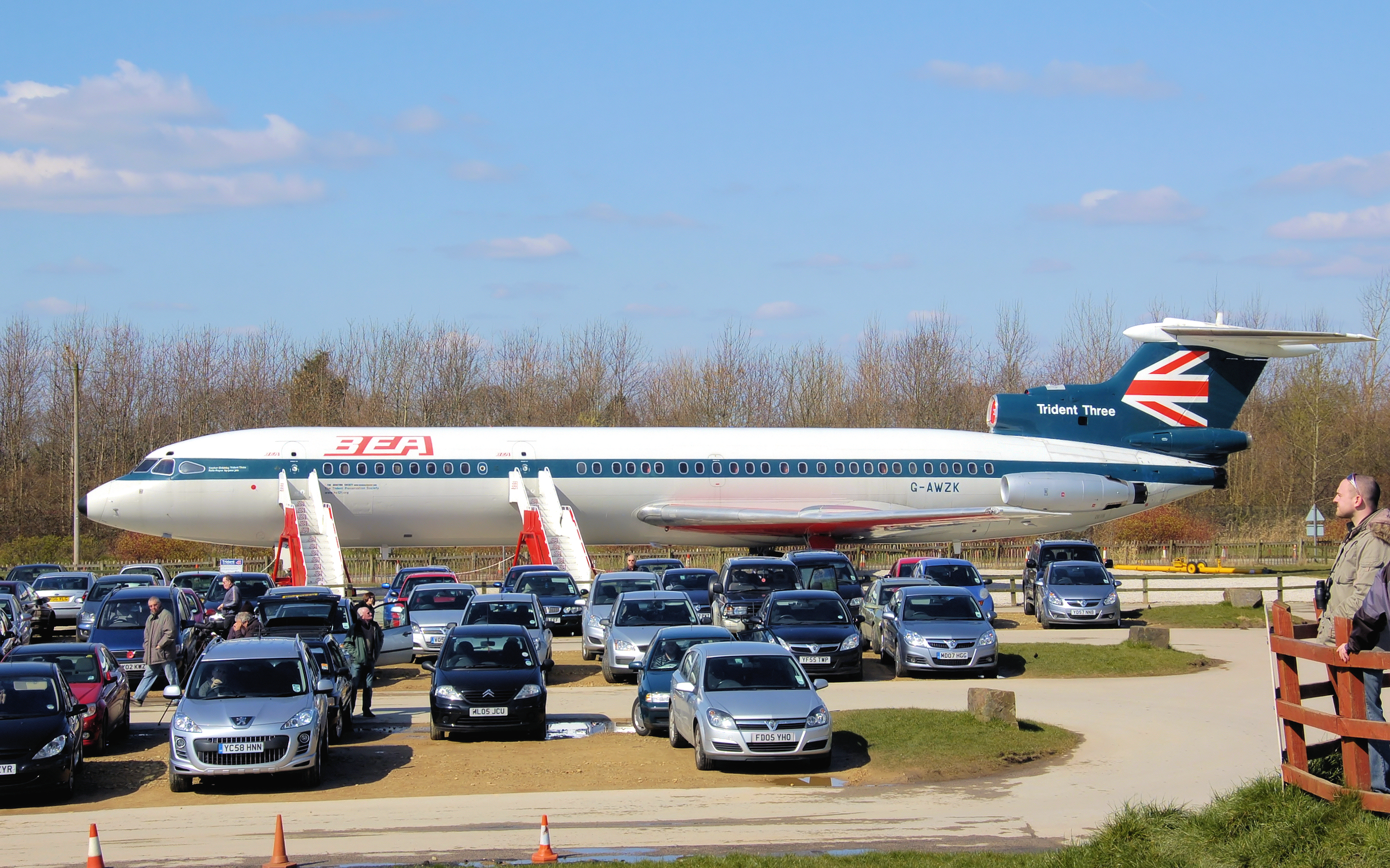 ex-British European Airways Hawker Siddeley Trident 3B (G-AWZK) preserved at the Aviation Viewing Park at Manchester Airport, England. Delivered new in 1971, she flew for BEA and British Airways, retiring in 1985.